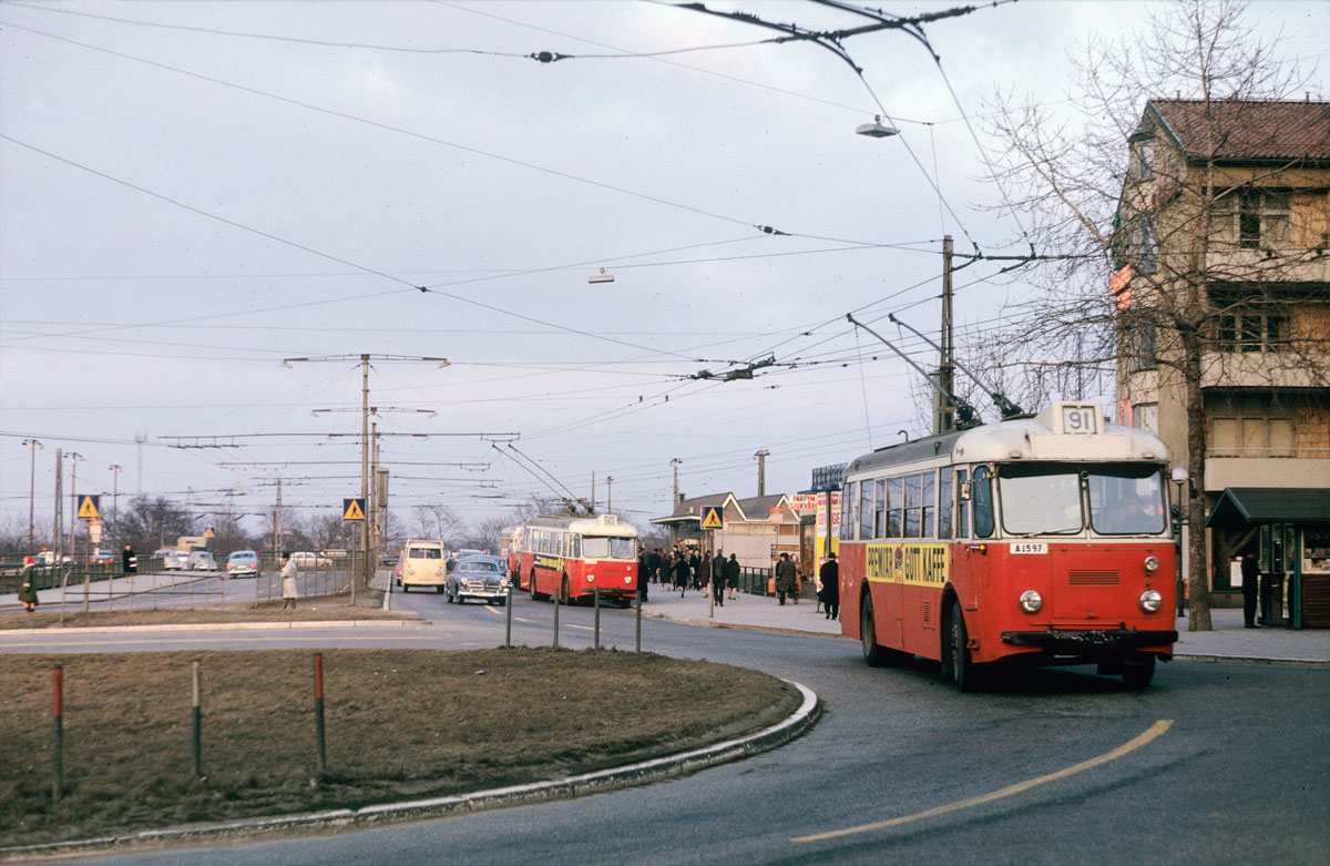 Trolley buses at Gullmarsplan in Stockholm 1964. Photo Nr: 2108-1188.